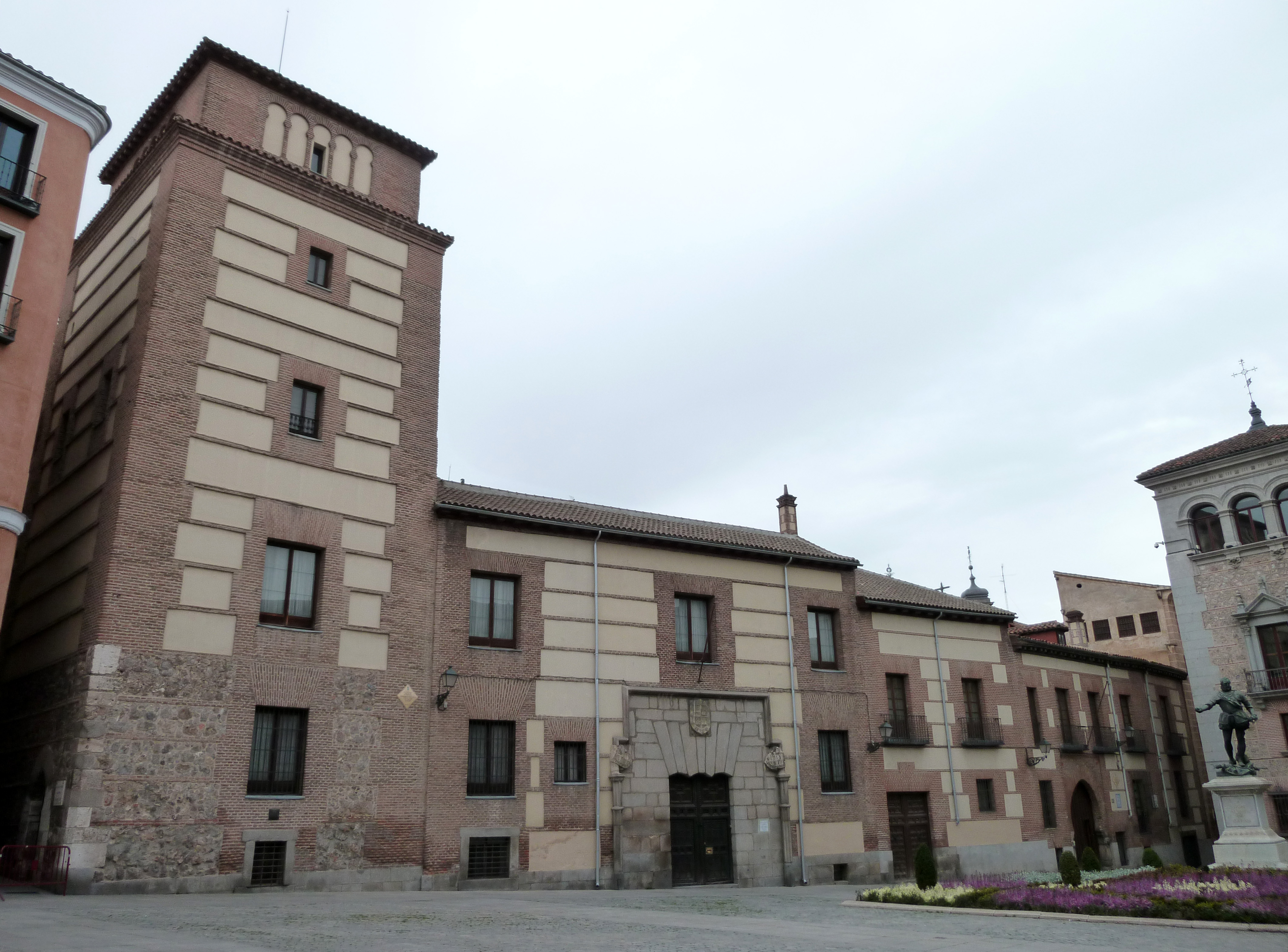 Casa de los Lujanes (house) and Torre de los Lujanes (tower), at Plaza de la Villa (square) in Madrid (Spain). Built in the 15th century.